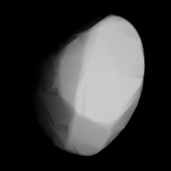 3D convex shape model of 908 Buda, computed using light curve inversion techniques. J. Hanuš, J. Ďurech, M. Brož, B. D. Warner (June 2011). "A study of asteroid pole-latitude distribution based on an extended set of shape models derived by the lightcurve inversion method". Astronomy and Astrophysics 530: A134. ISSN 0004-6361. arXiv